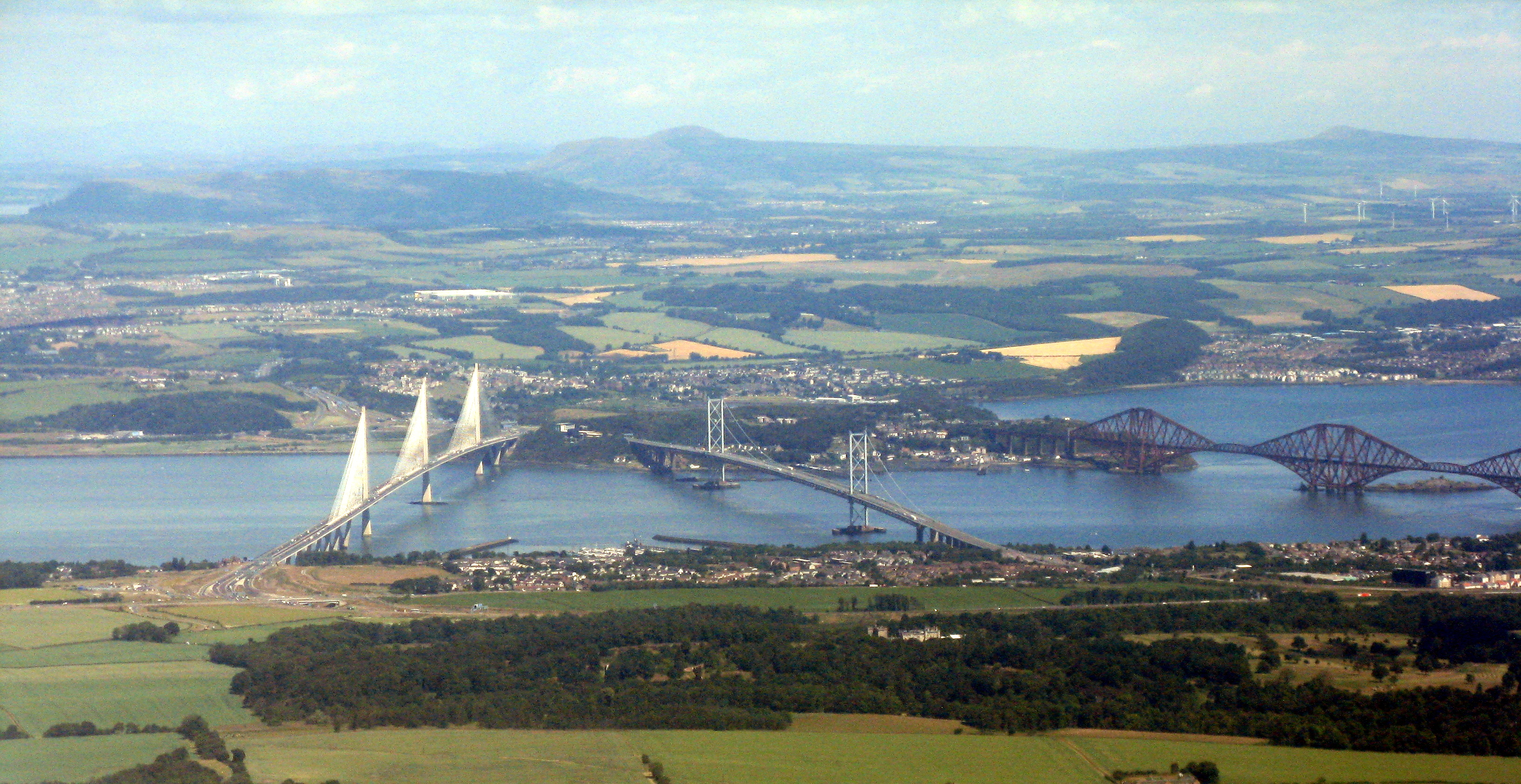 Seen just after departure from Edinburgh on Runway24. From left to right The Queensferry Crossing, the Forth Road Bridge and the Forth Bridge. The Lomond Hills are on the skyline, about 37 km away